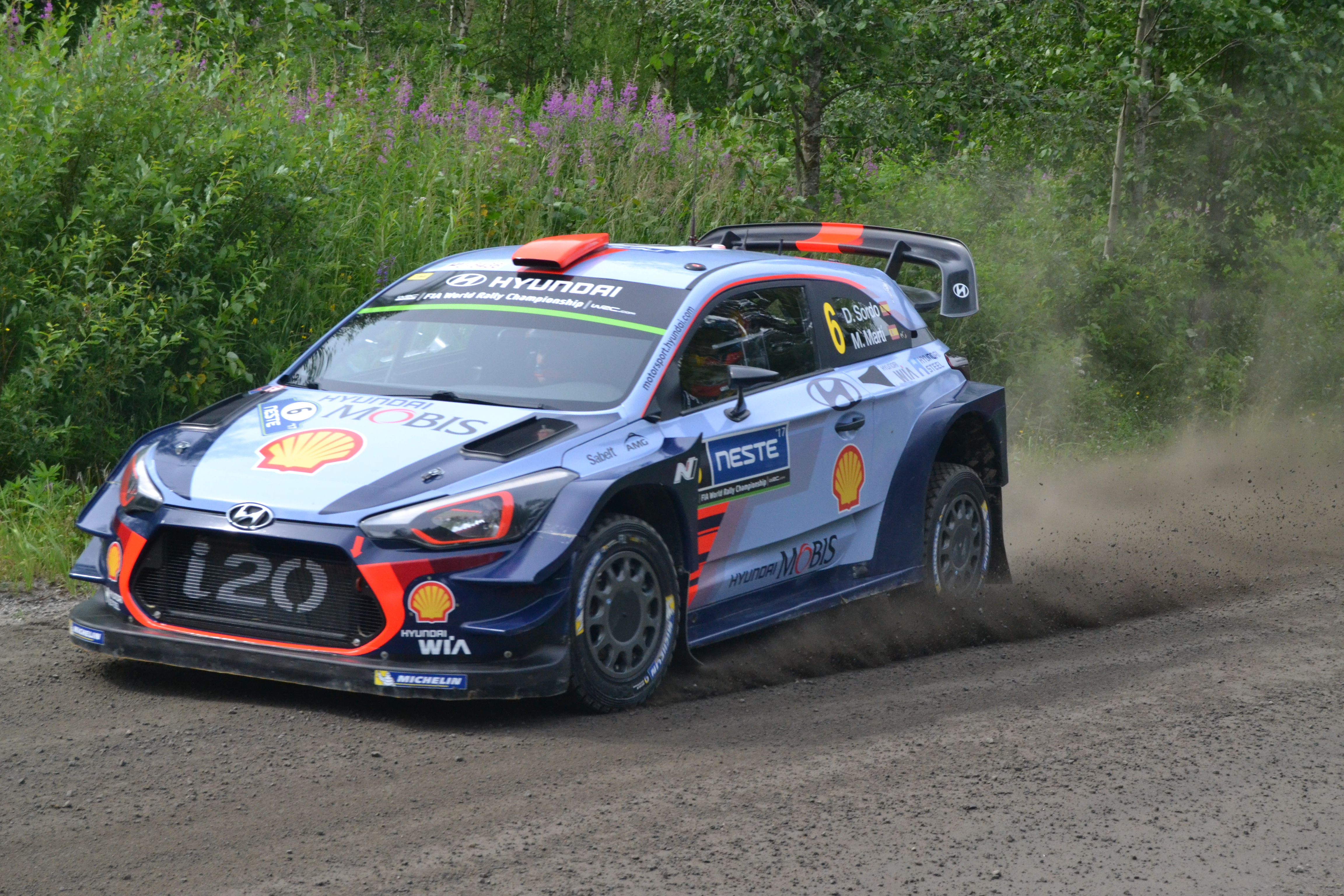 Dani Sordo at second Saalahti stage at Rally Finland 2017